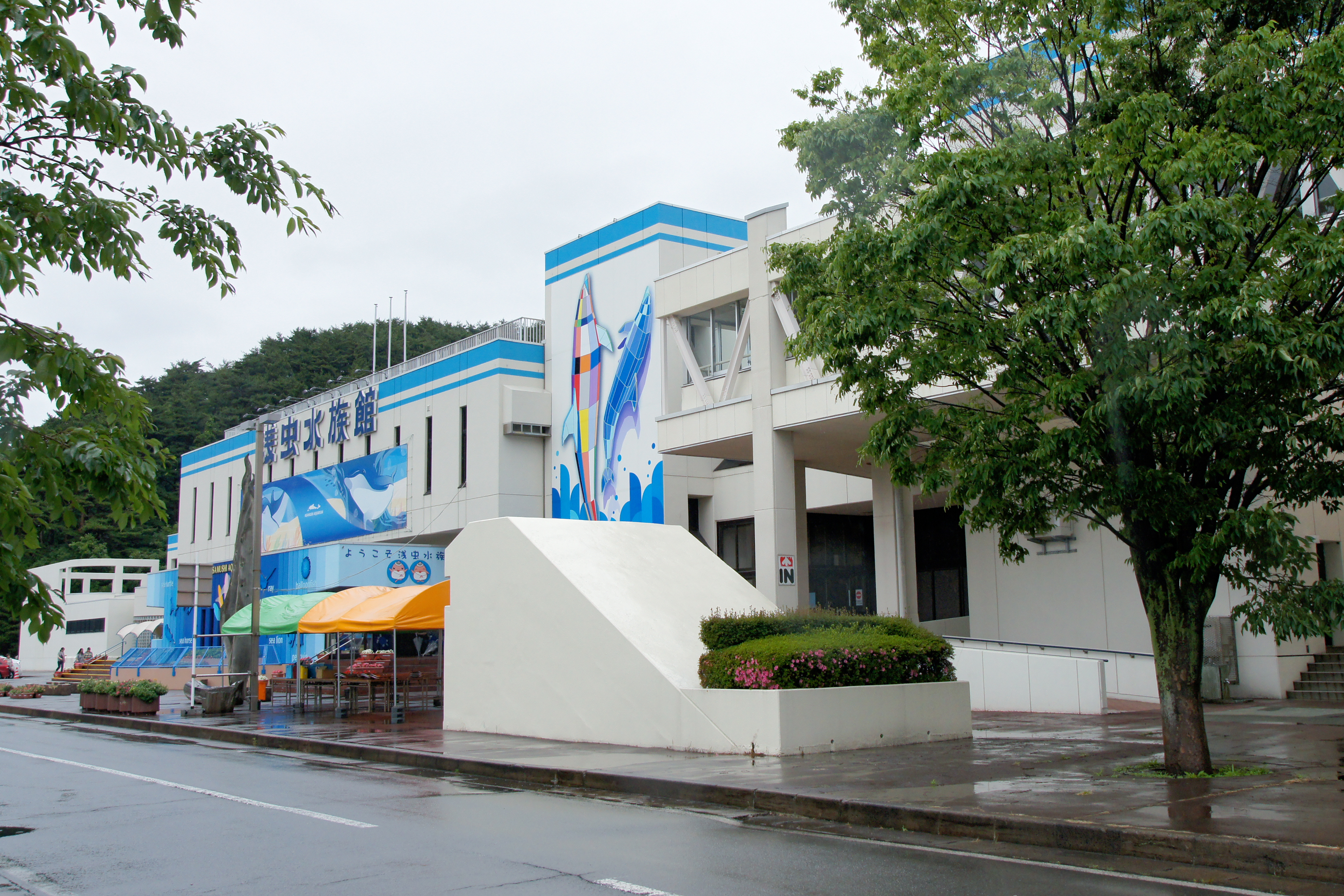 Asamushi Aquarium in Aomori, Aomori prefecture, Japan